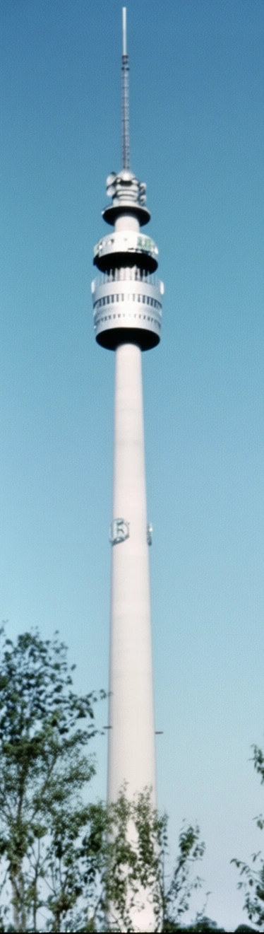 The Floriantower in Dortmund, West Germany, 1959